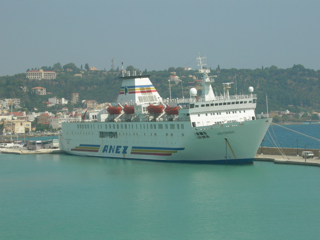 Ugo Foscolo Ship, Anez Lines. Picture taken in the port of Zakynthos, Greece